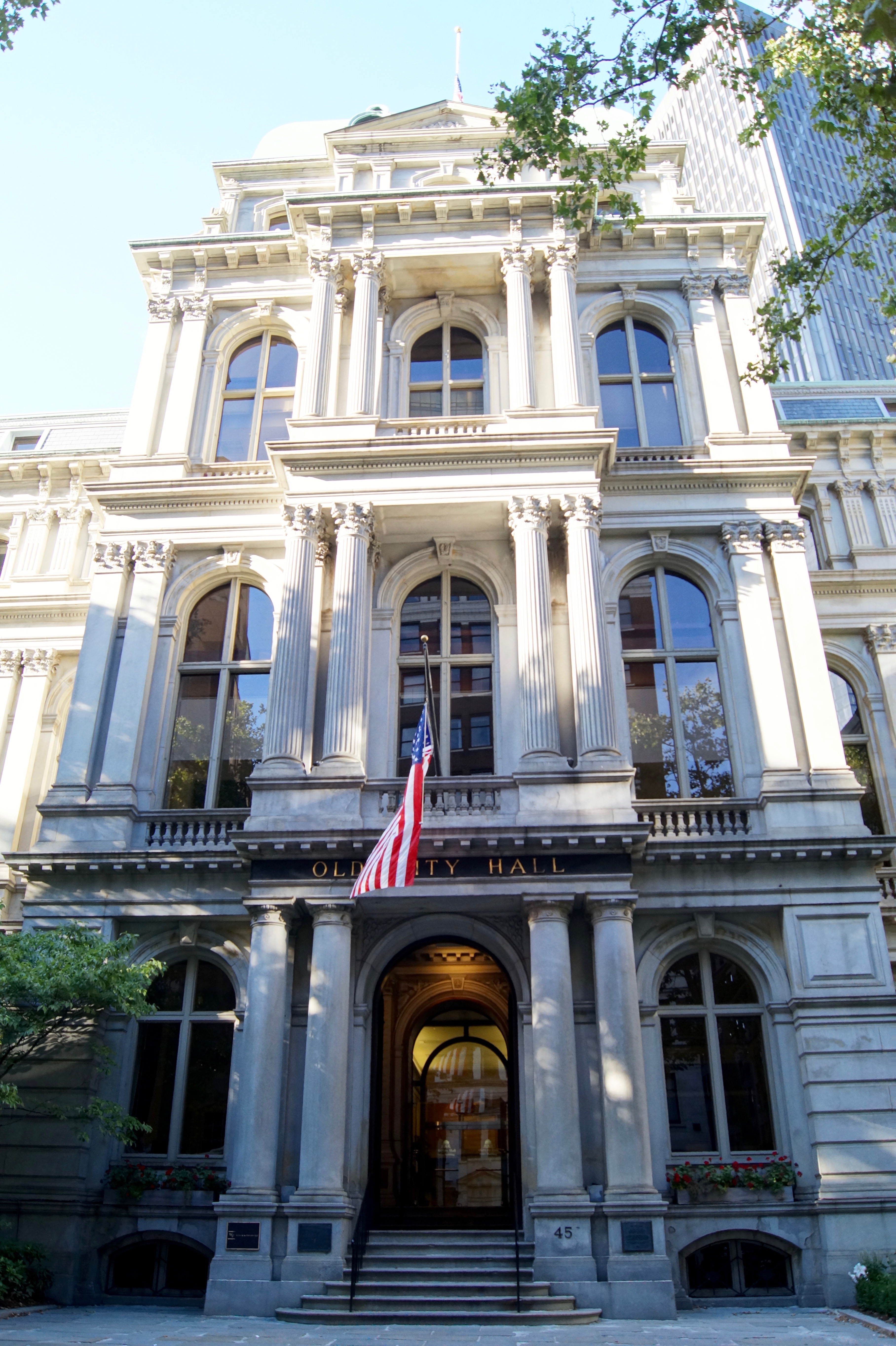 Combined view of facade of old city hall in July 2016